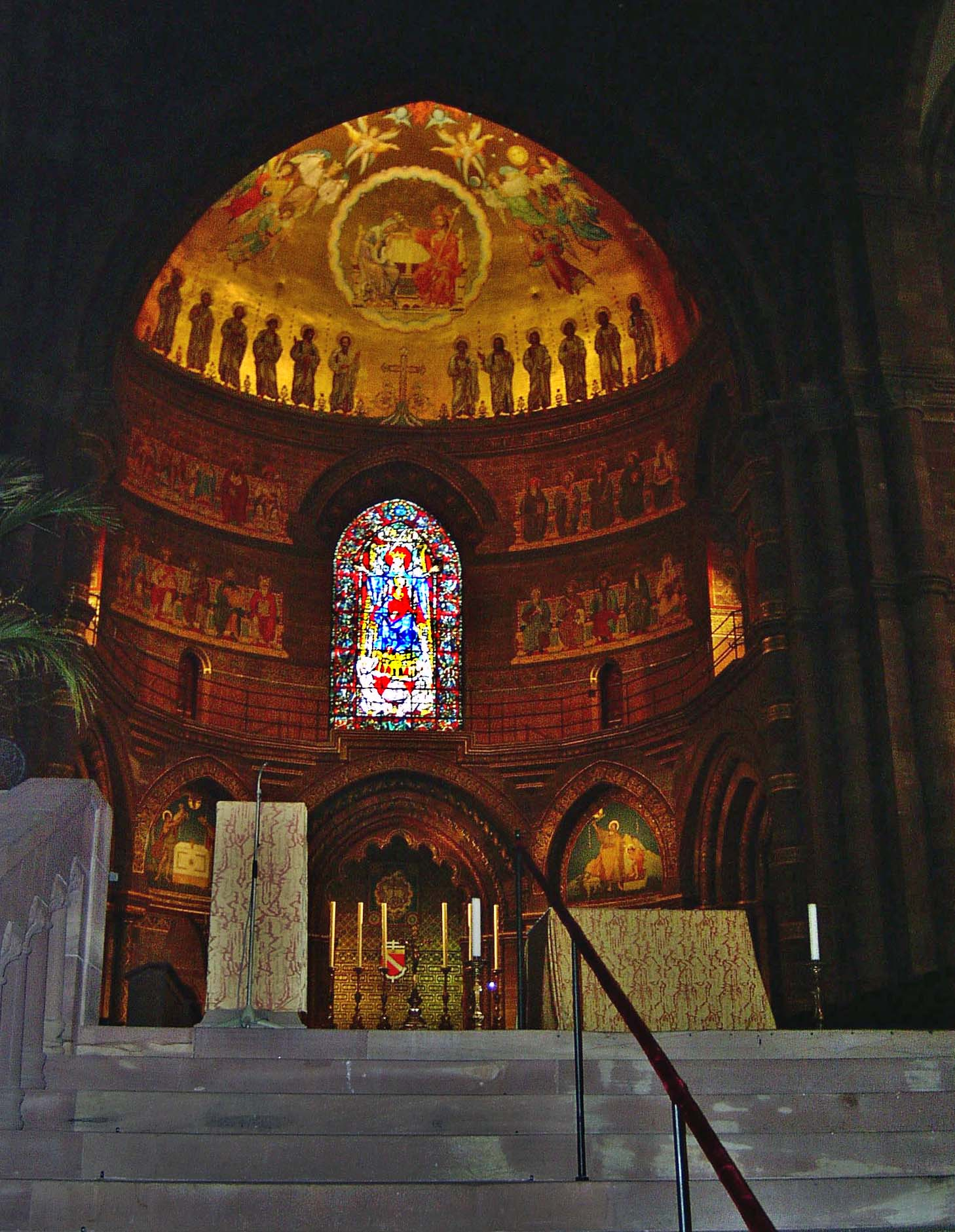 Inside view of the Strasbourg cathedral